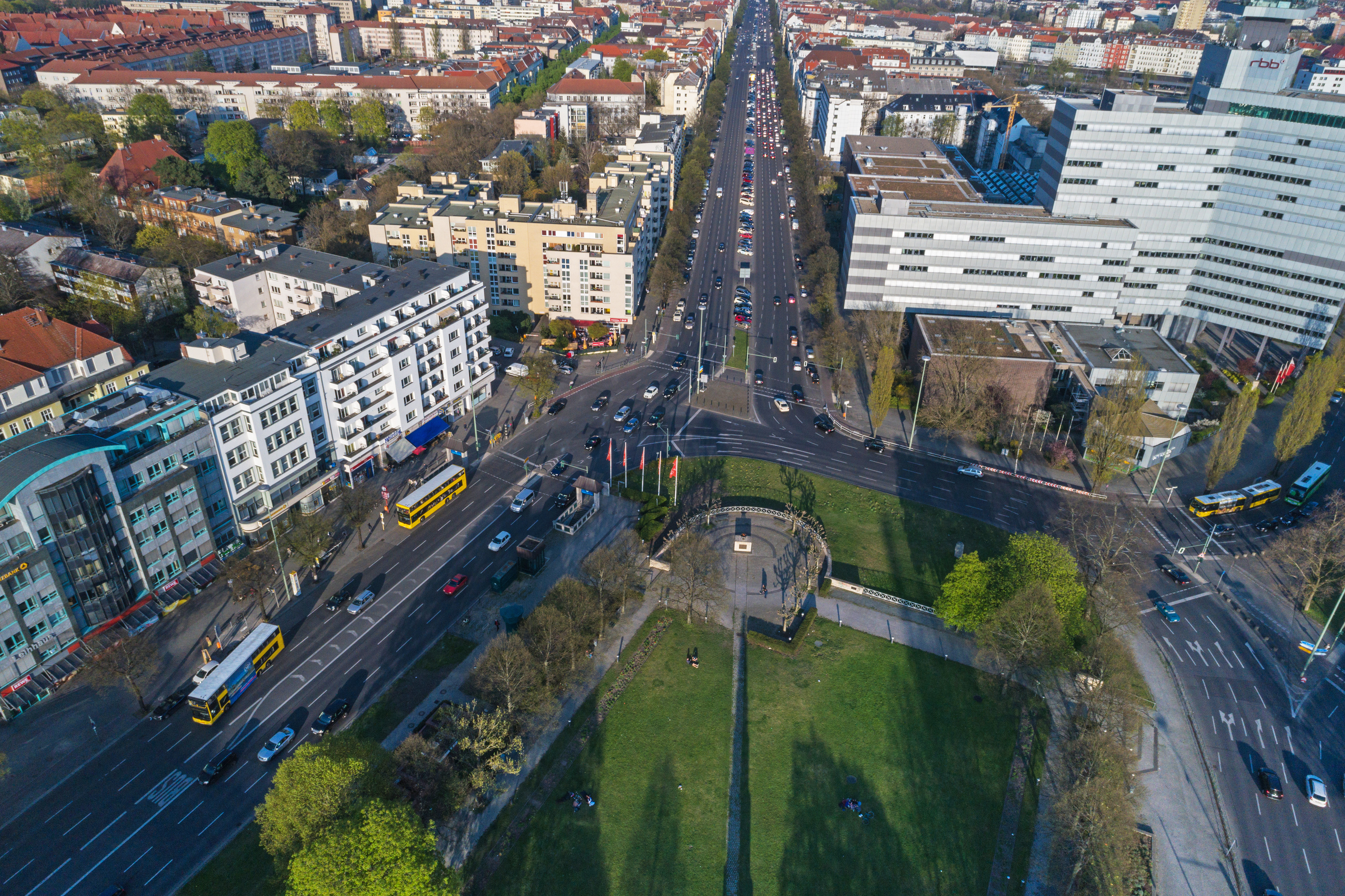 Aerial view of Theodor-Heuss-Platz in Berlin (Germany)